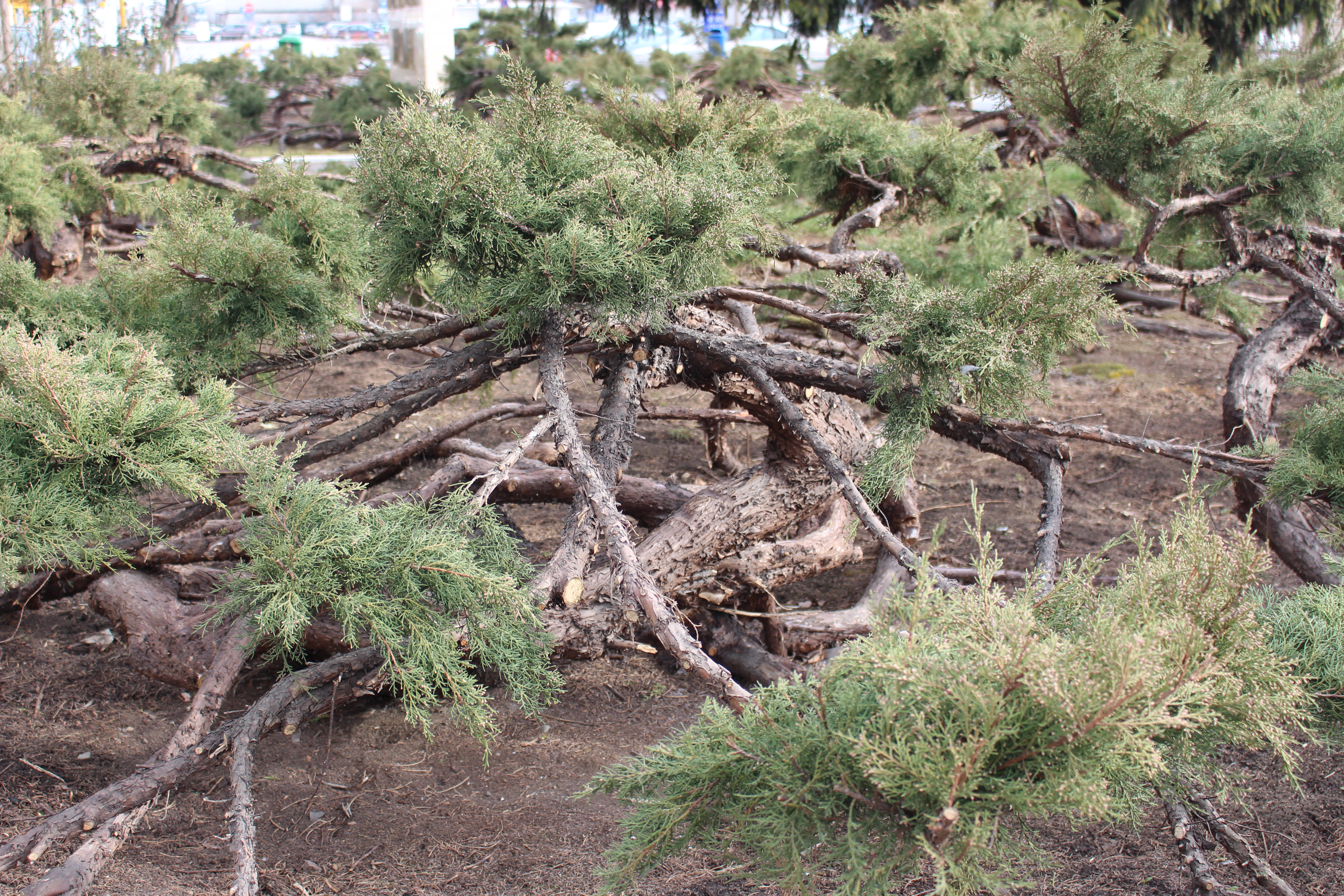 Juniperus × pfitzeriana in Kolozsvár, Transylvania.